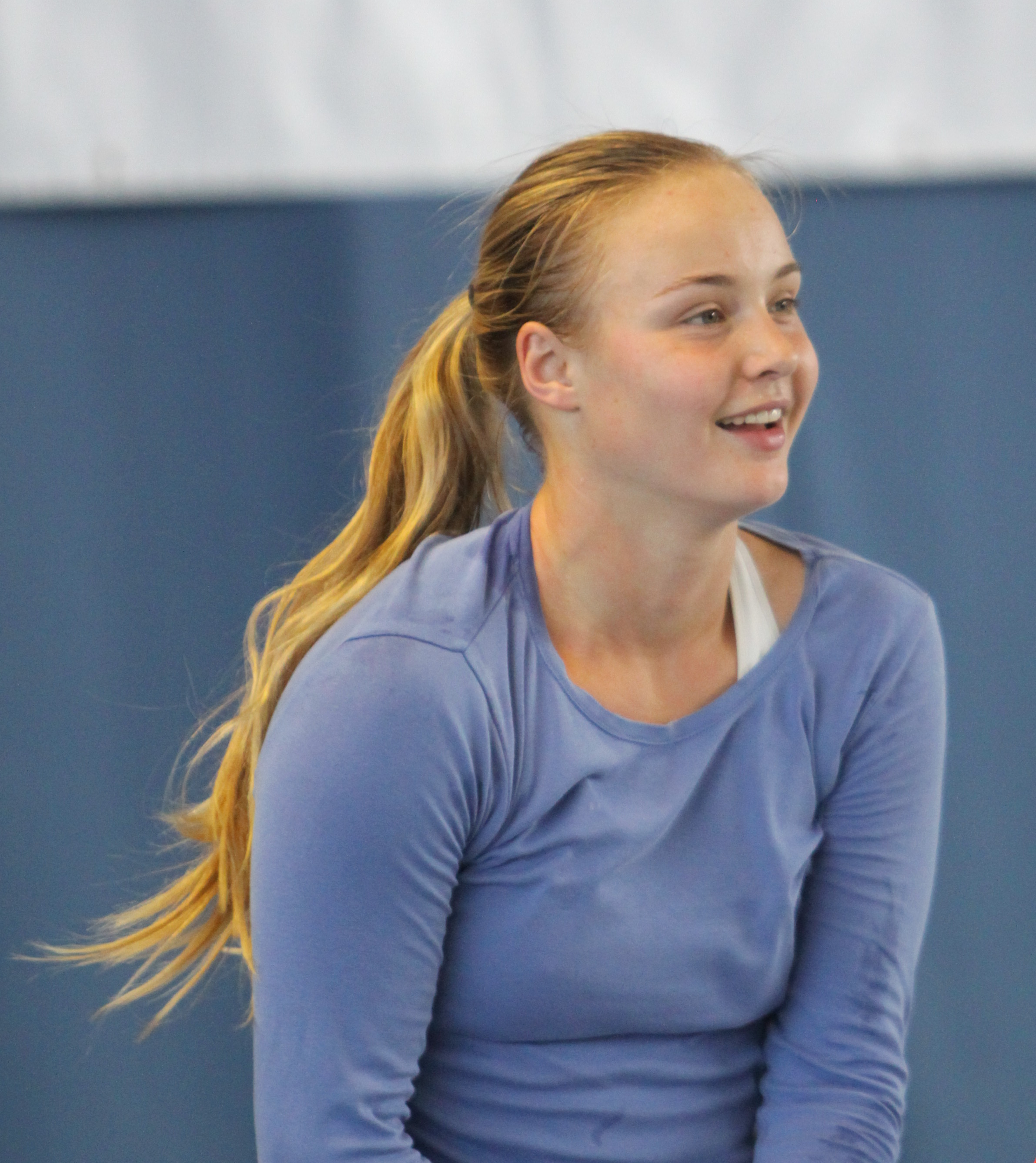 Rebecca Šramková, Kreuzlingen